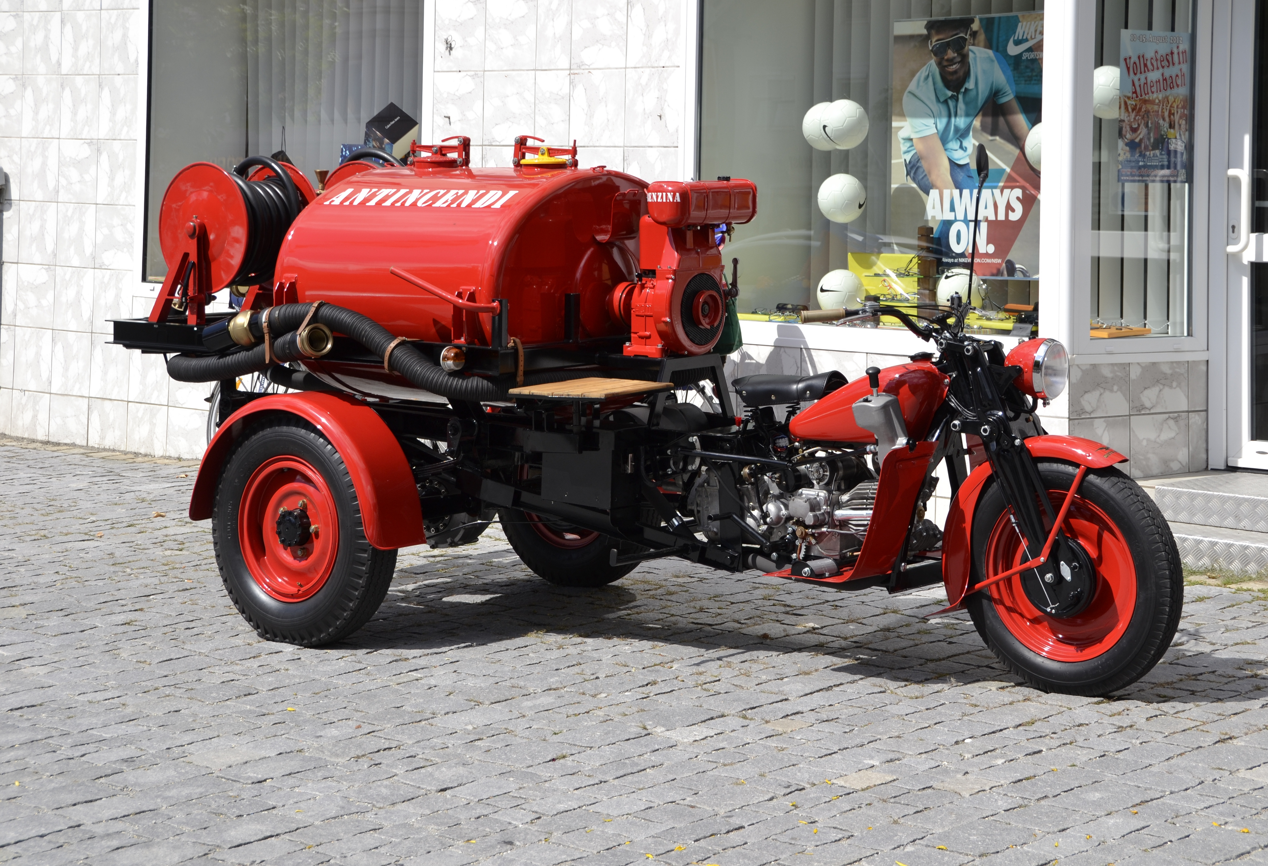 Italian fire engine based on a Moto Guzzi trike.